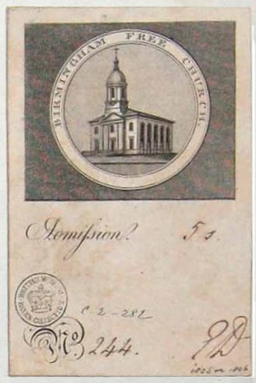 admission ticket C,2.282: to 'Birmingham Free Church'; image of church in circle; 'Admission [5s] No 244; [1805 or 1806]